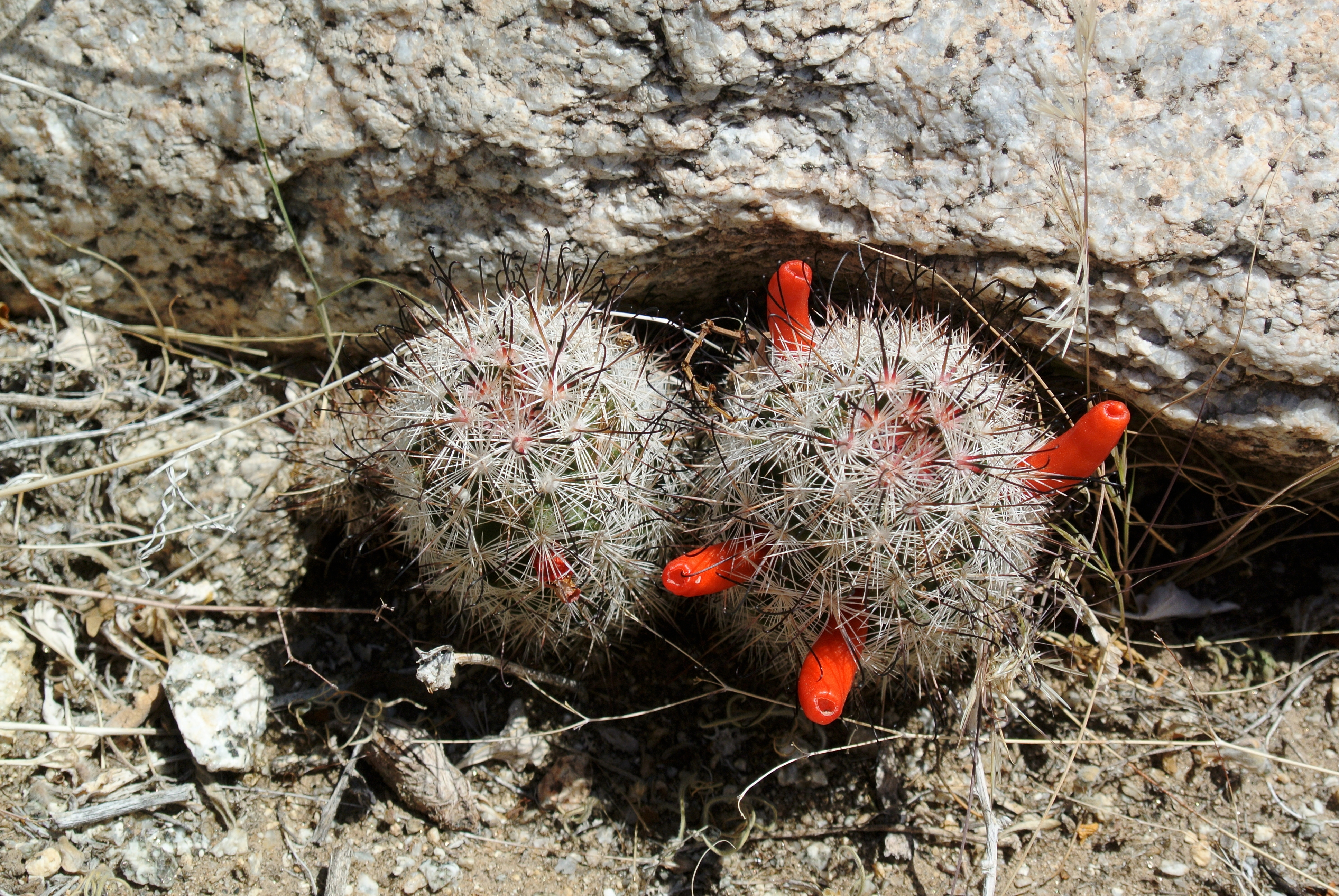 Mammillaria tetrancistra in Anza-Borrego Desert State Park (Mine wash).